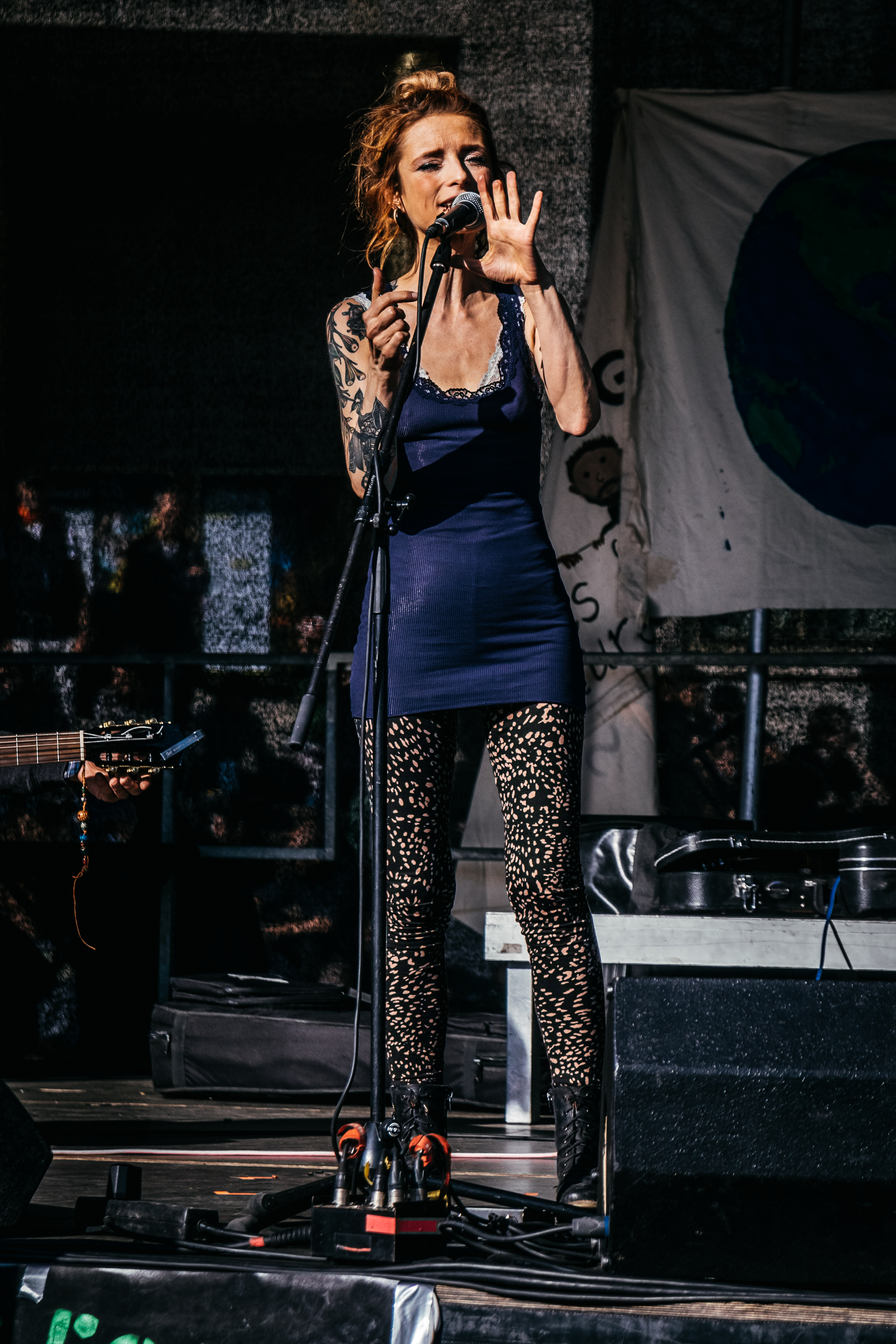 Sarah Lesch talks to the audience about her experience after the release of her song Testament at the Fridays For Future climate strike on the 20th of September in Leipzig, Germany